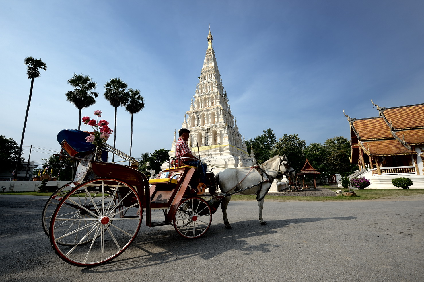 The word of “Gum Garm” is a colloquialism which comes from a written language “Kum Karm.” “Kum” means prevention and protection. “Karm” means country. So, Vieng Gum Garm means a city of prevention and protection of country or protection of a city. -There is evidence that Pya Mang Rai conquered Lam Poon in B.E. 1835 (1292) and built Vieng Gum Garm in B.E. 1837 (1294) and built Chiang Mai in B.E. 1839 (1296). However, during the period that Chiang Mai was ruled by Myanmar (B.E. 2101-2317) (1558-1774) Ping River changed its flow way. When there was flooding it caused Vieng Gum Garm which was above the ground to become the city under the ground. After the Department of Fine Arts has been burrowing for decorating for the archeological purposes since B.E. 2527 they found sediment, sand and gravel about 1.50-2.00 meters covering this archaeological site. They have found the track of not less than 30 underground temples. It is the first underground historic city that was found in Thailand. It is a historic learning site in Chiang Mai.